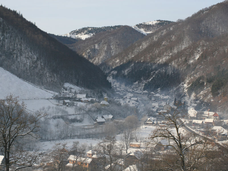 Valea Ierii village as seen from the Creasta Plopi hill, Romania